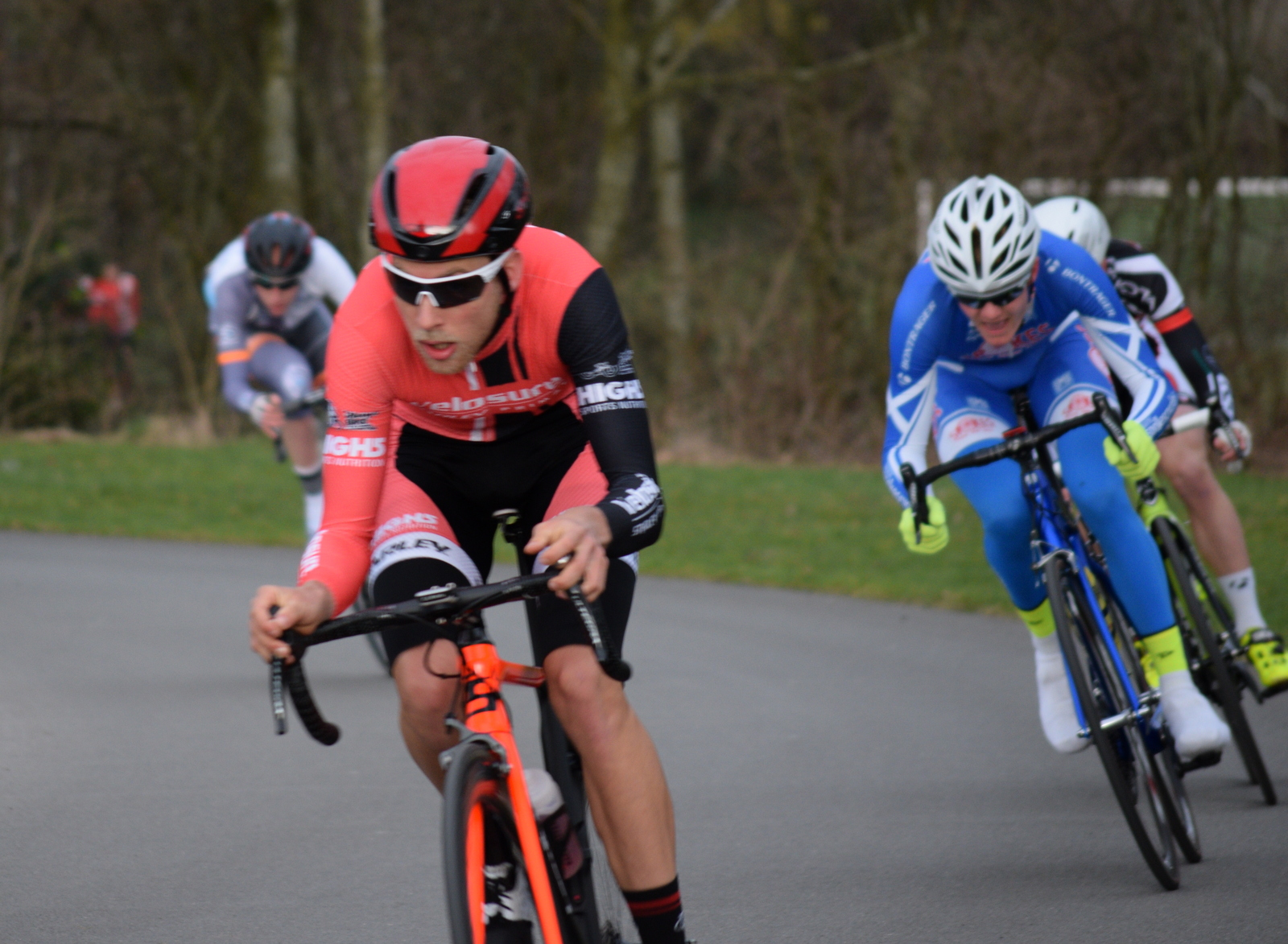 Gullen at the winter warrior race series, Salt Ayre, Lancaster.